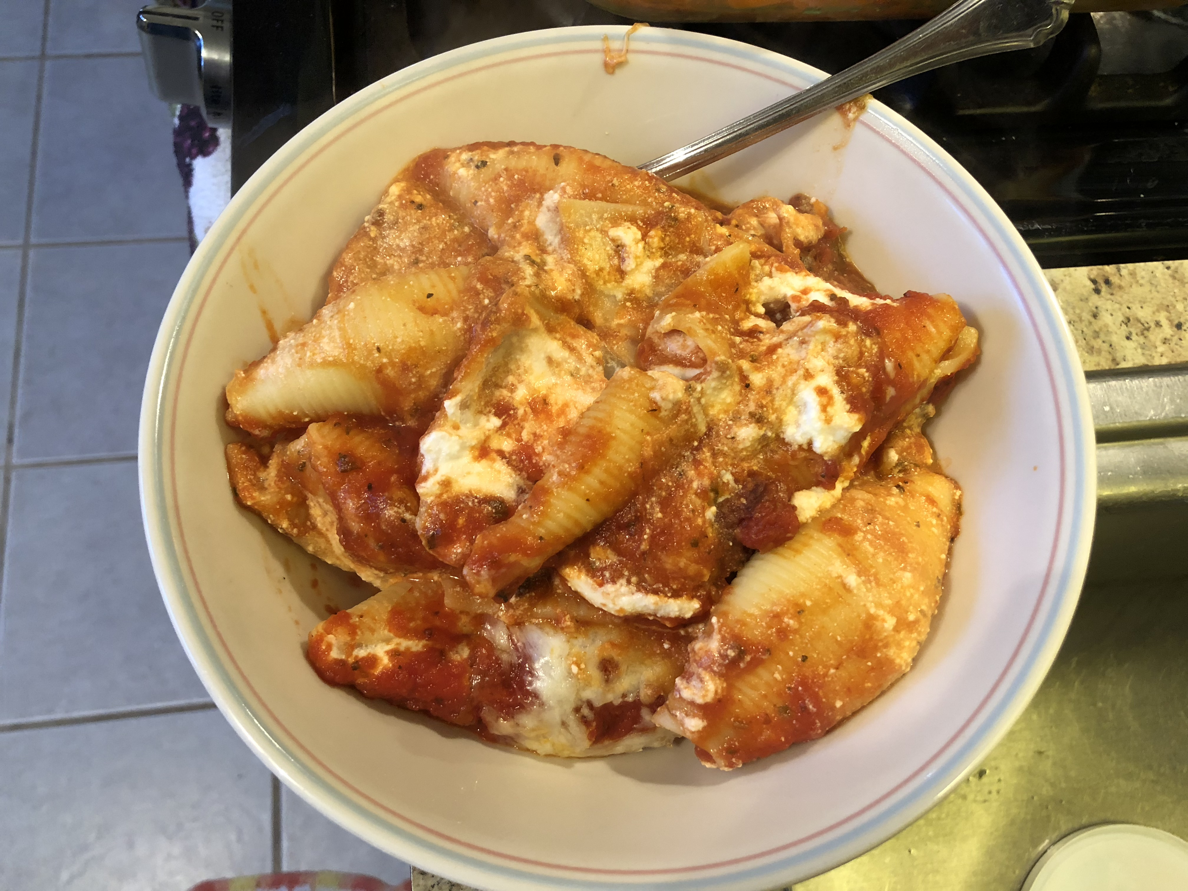 A serving of jumbo stuffed shells (made with Kraft Mozzarella Cheese, Barilla Jumbo Shells, Prego Italian Sauce, Maggio Ricotta Cheese) in Ewing Township, Mercer County, New Jersey